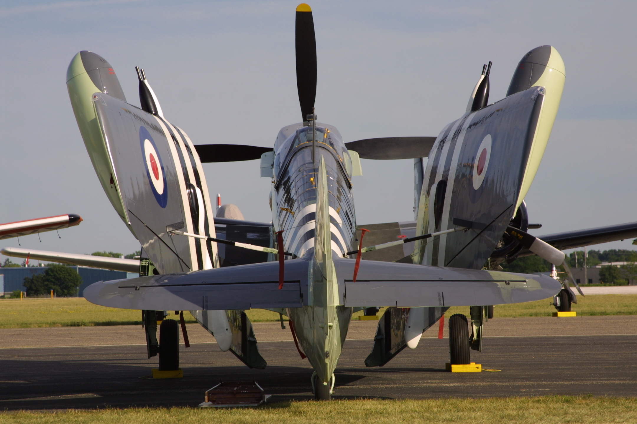 Fairey Firelfy, Wings Folded, Oshkosh, 2002 taken and submitted by Paul Maritz (paulmaz)